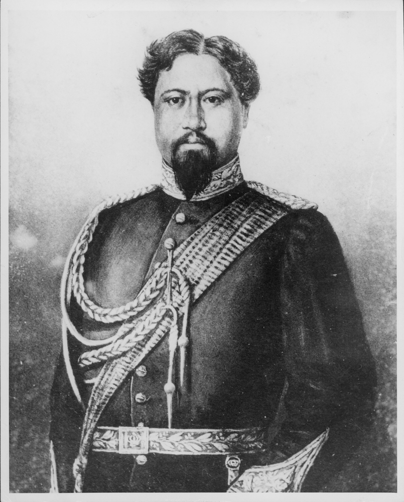 Lot Kapuaiwa as Minister of the Interior.